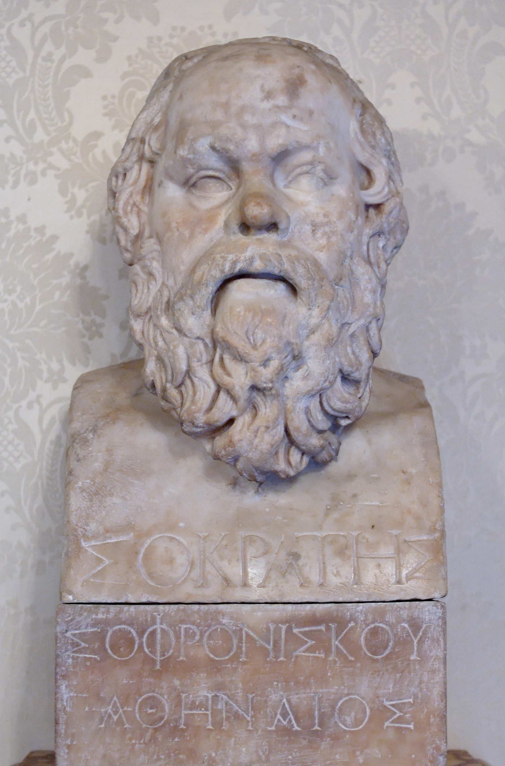 Herm with bust of Socrates. Marble, Roman copy from a Greek original of the late Hellenistic era.